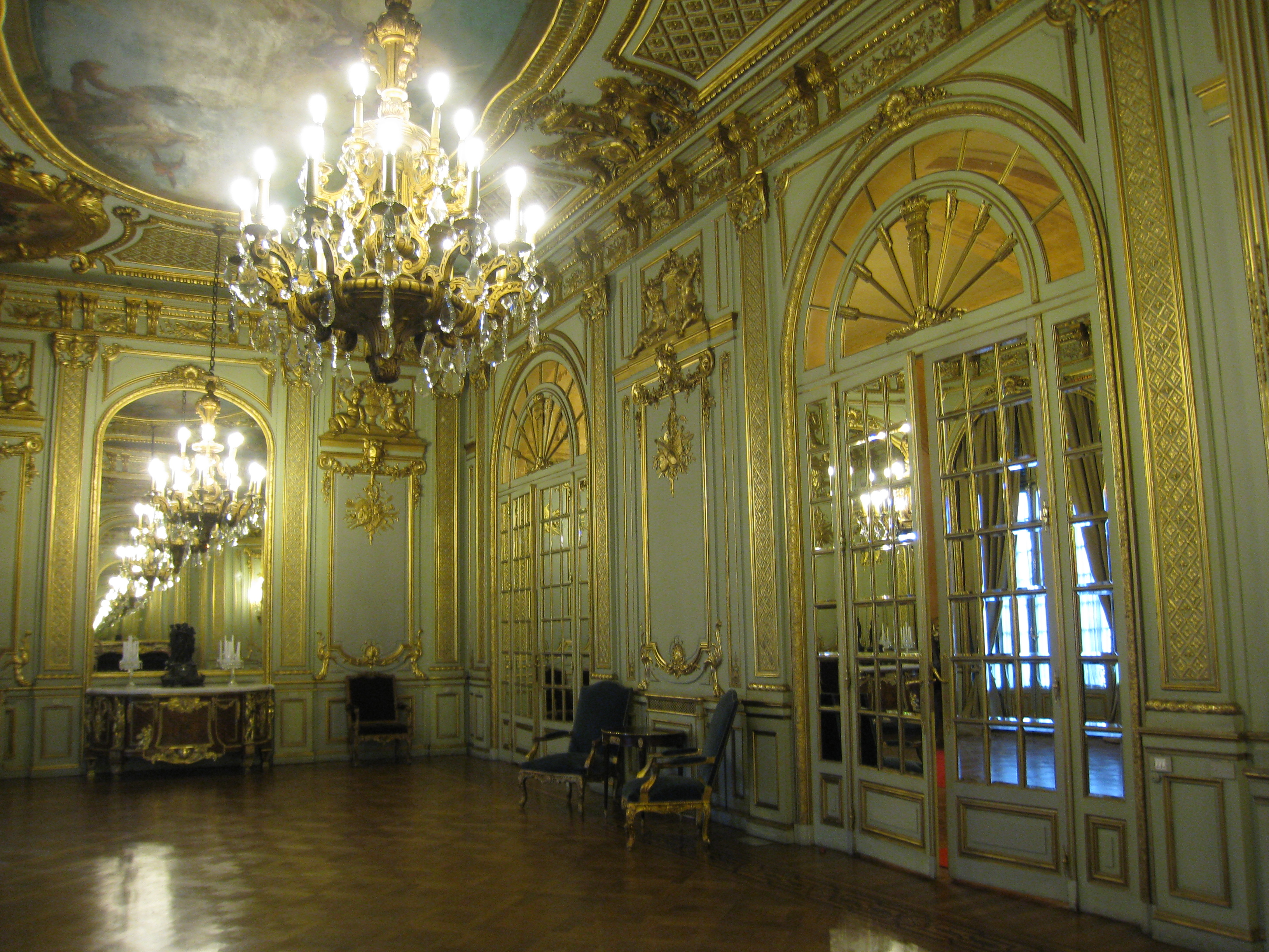 Ballroom of San Martin Palace, Buenos Aires